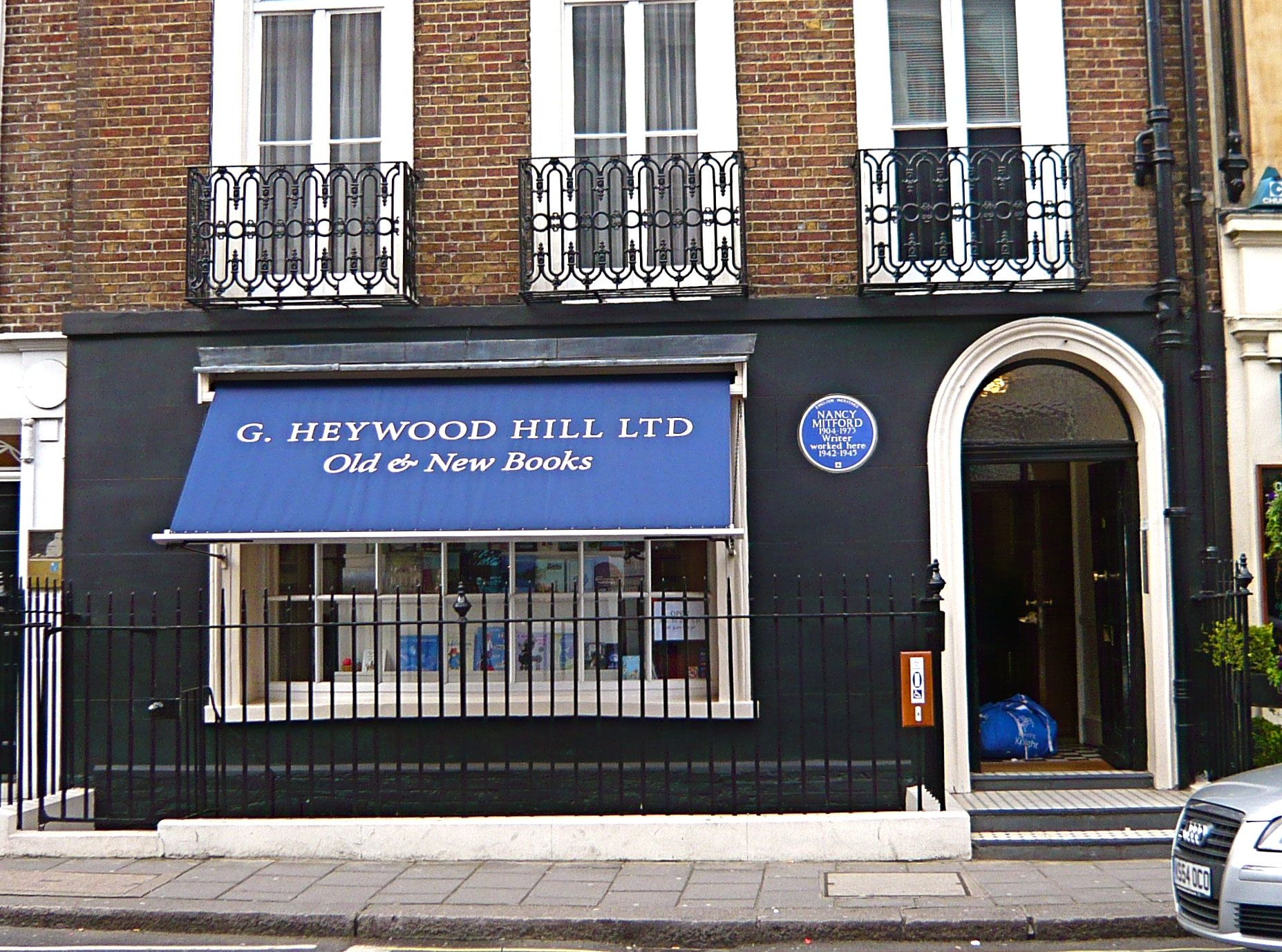 John Saumarez-Smith - a friend from school - has the best bookshop in London - and it's next to Trumpers